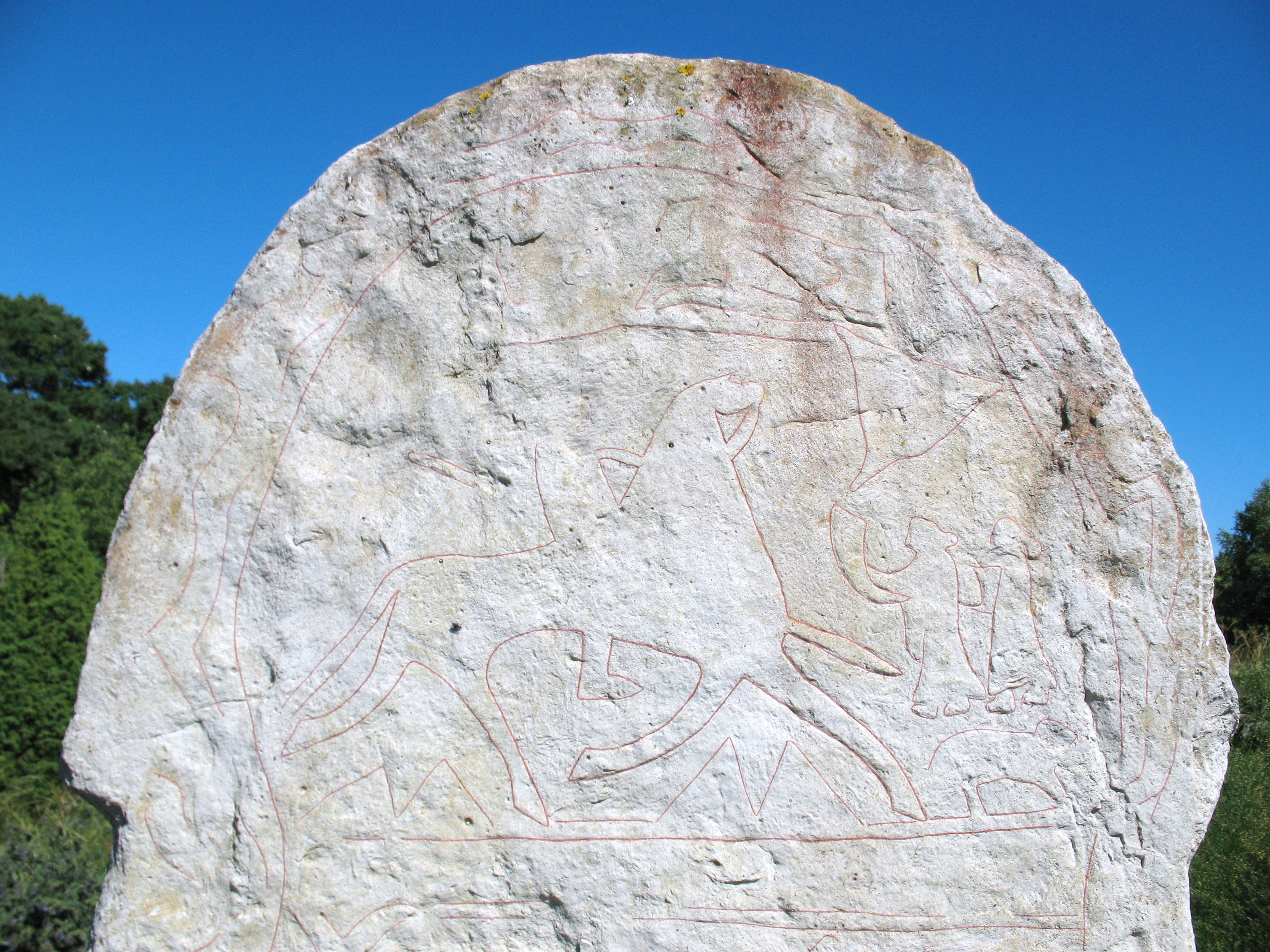 stone tablet, possible desciption of meaning or event depicted: "As day turns to night, a victorious warrior rides home over the mountains to his people to celebrate" as said this is a welcoming stone so its also way to communicate 'welcome home' to the people that have came